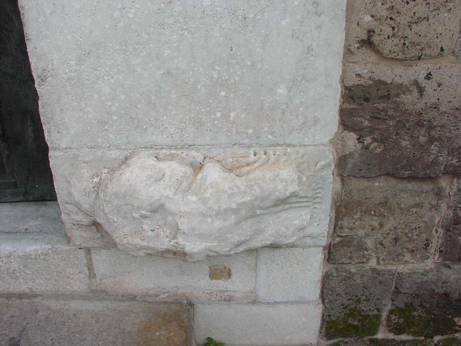 Caserta